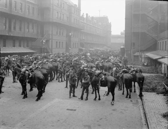 The 1st Life Guards parading before leaving for France.